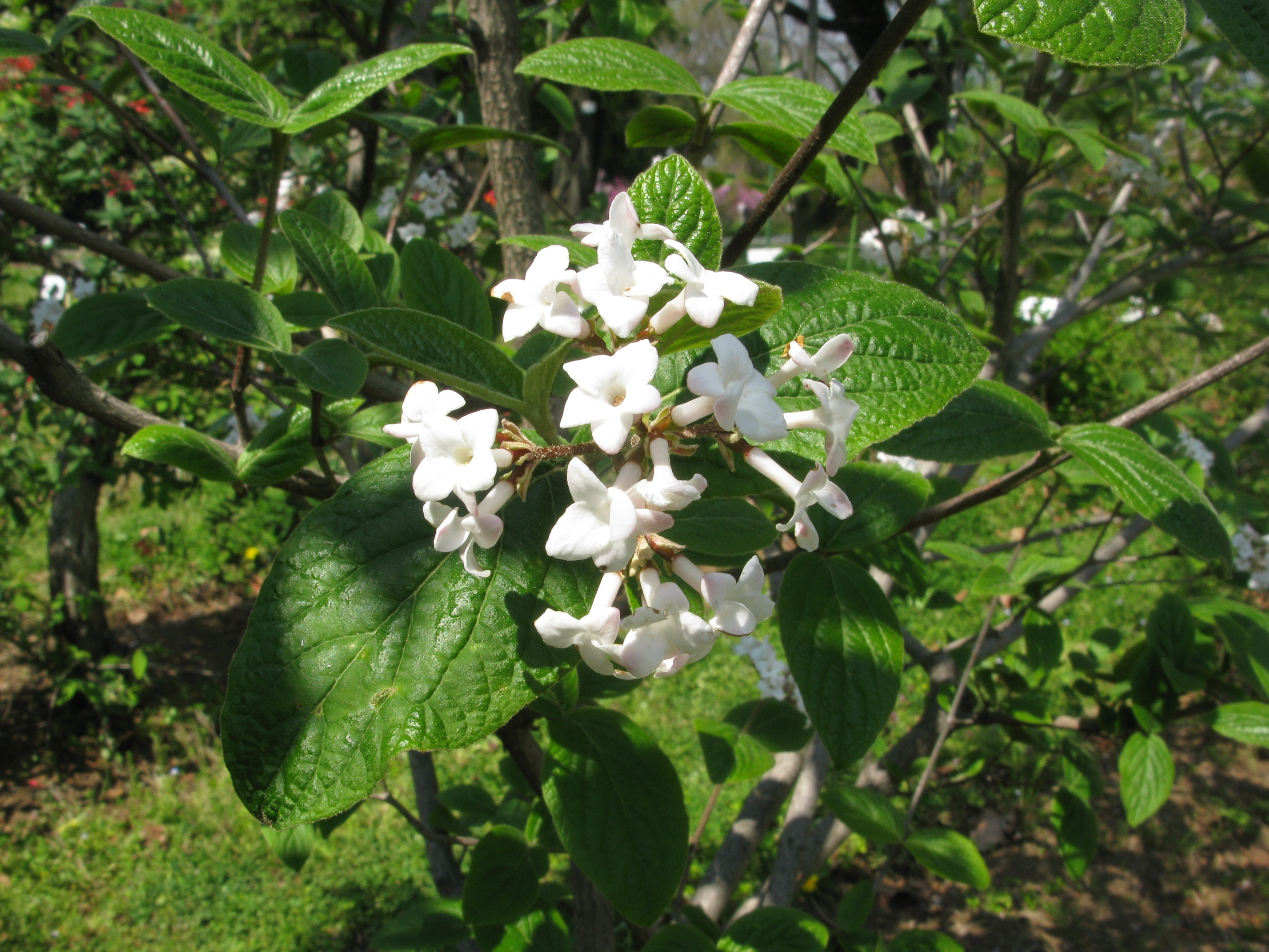 Viburnum carlesii var. bitchiuense, Koishikawa, Botanical Gardens, the University of Tokyo, Japan